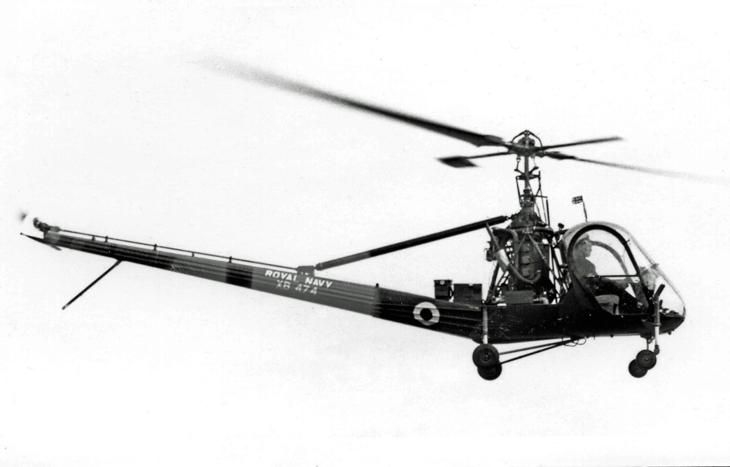 Hiller HTMk1 (HTE-2) XB474 of 705 Squadron Royal Navy at RNAS Stretton in 1953